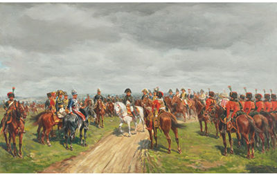 Napoleon I of France during the Battle of Wagram